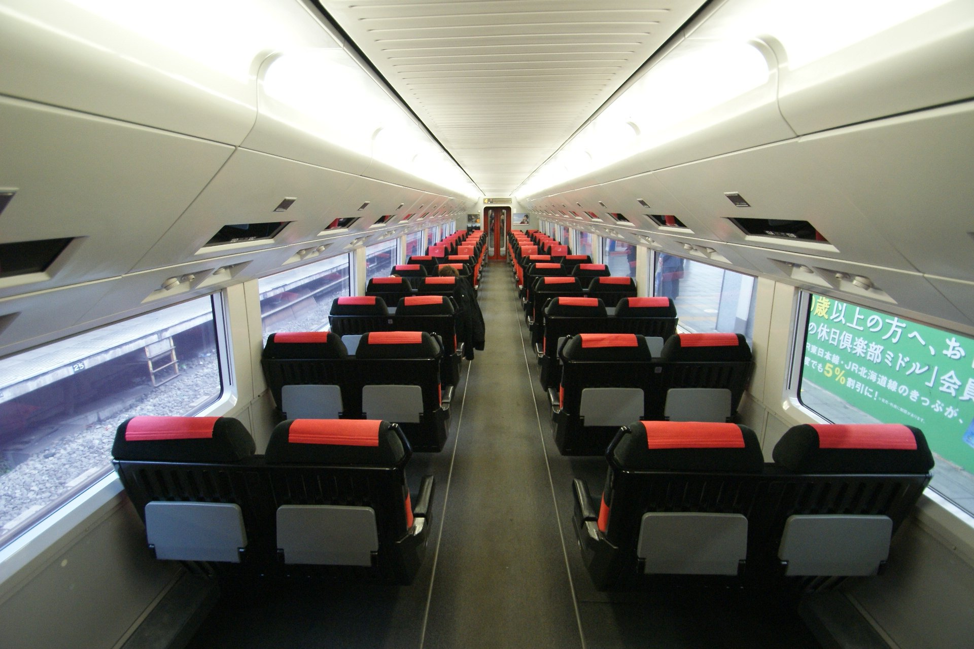 Interior of JR East 253 series "Narita Express" standard-class car with fixed seating